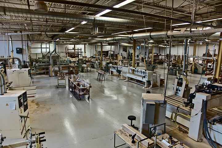 The manufacturing floor in Art For Everyday